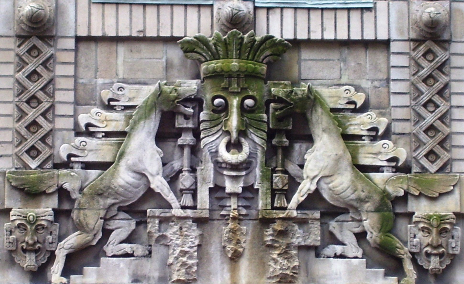 130 East 25th Street at the corner of Lexington Avenue in the Rose Hill neighborhood of Manhattan, New York City was built in 1915-1916 and was designed by Herman Lee Meader. Originally the B.W. Mayer Building and currently the Friends House in Rosehill, a hostel for people with AIDS, the building was restored in 1995-96 by Cindy Harden and Jan Van Arnam. (Source: AIA Guide to NYC (4th ed.))